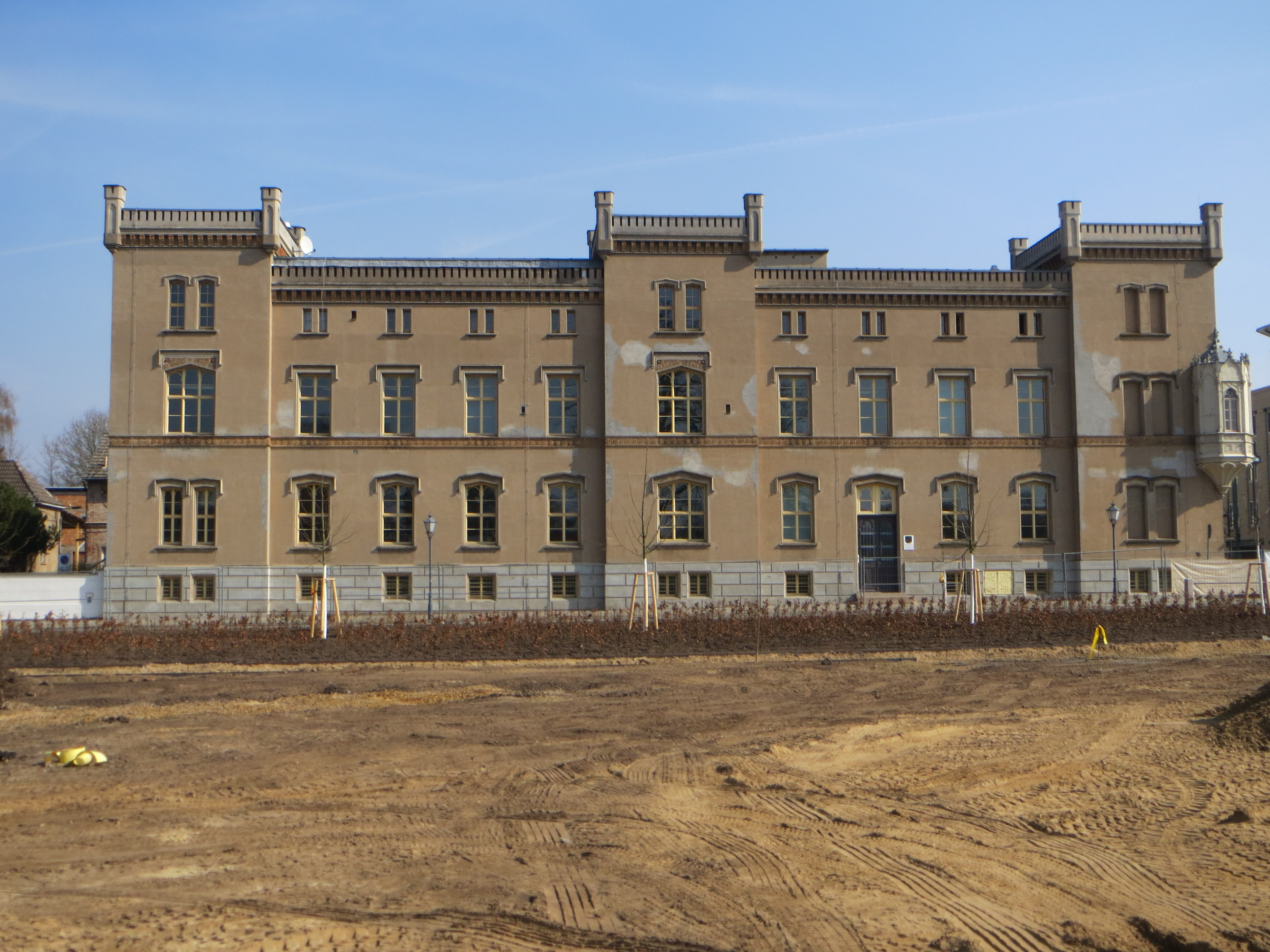 Carolinenpalais Neustrelitz